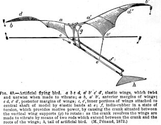 Adolphe Pénaud's rubber band driven ornithopter model, 1872.